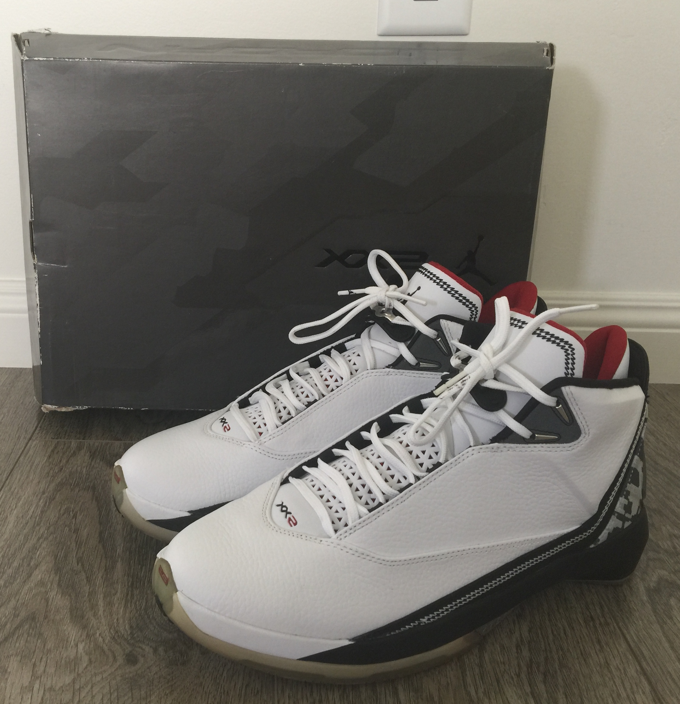 Nike Air Jordan XX2, (Bulls Colorway)